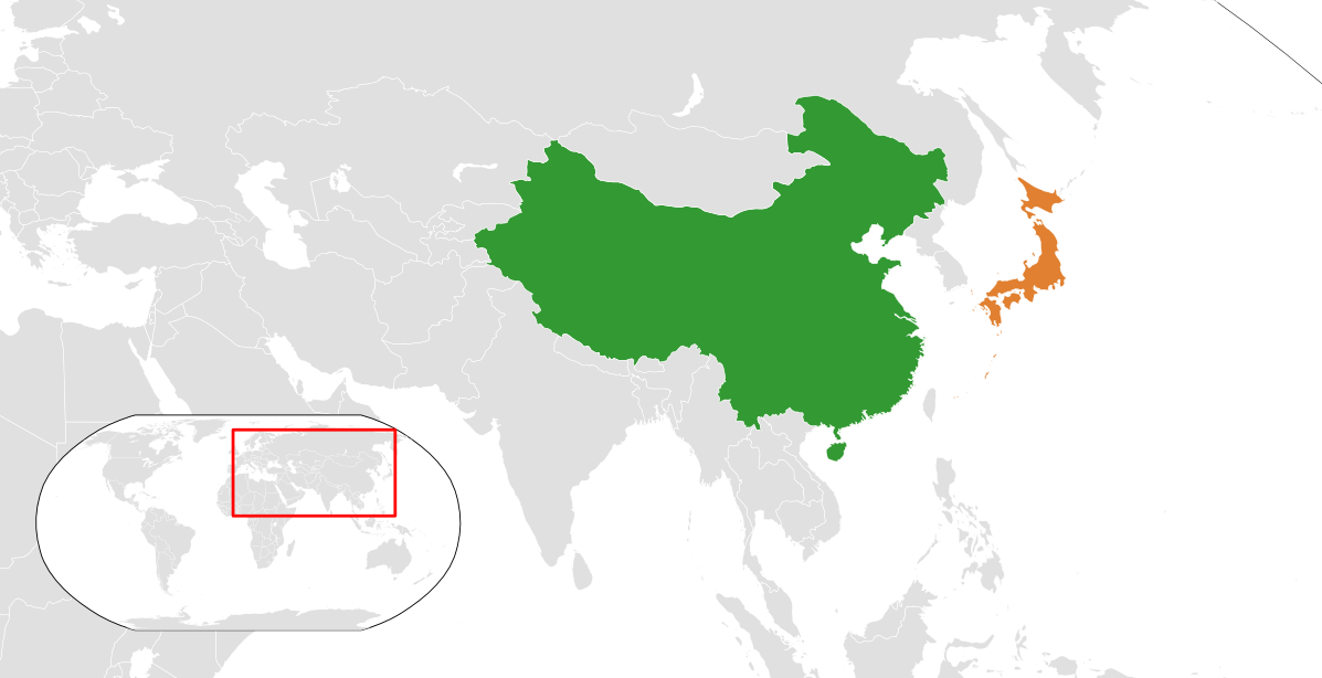 For bilateral relation articles